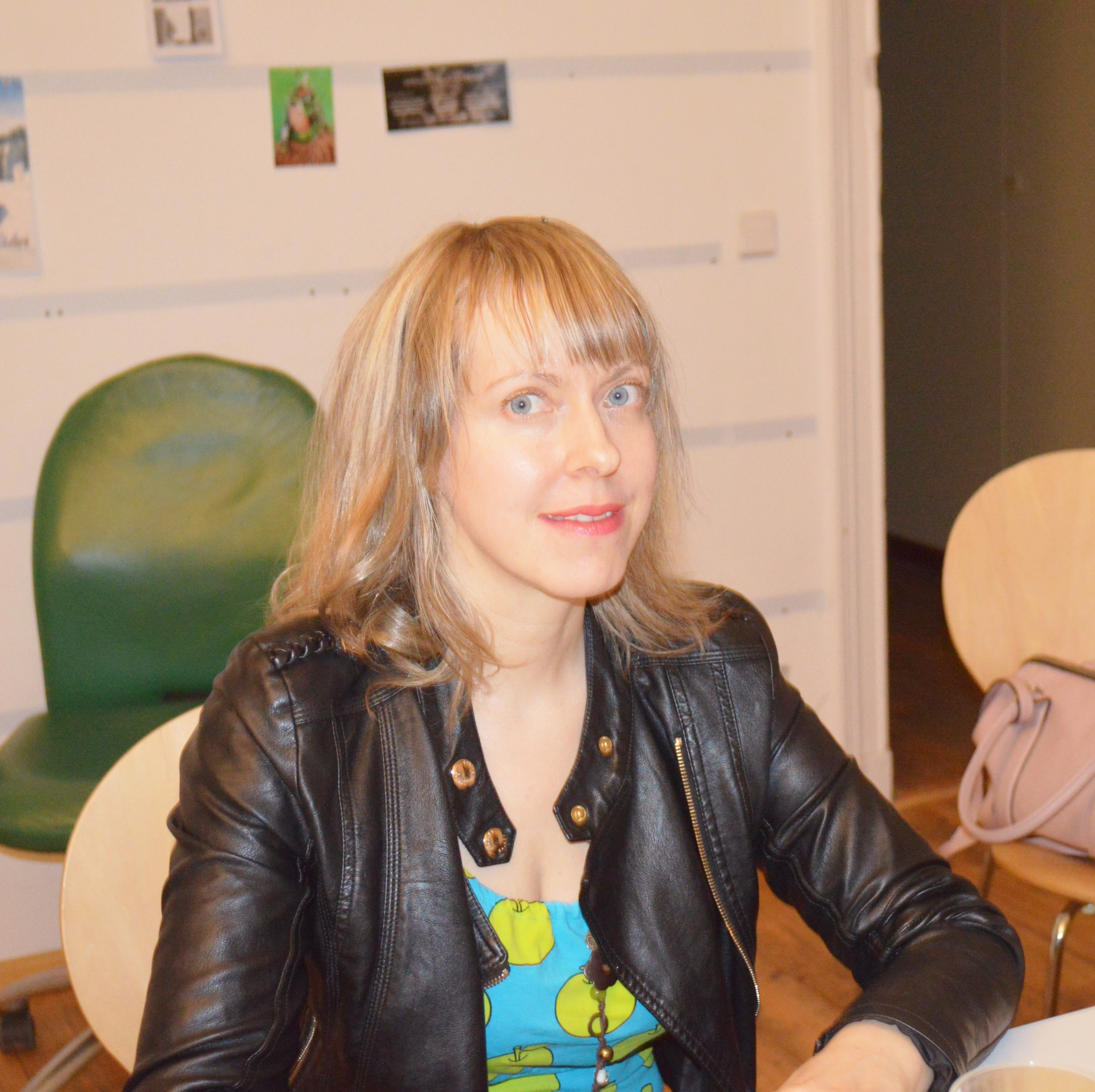 Kerstin Grether